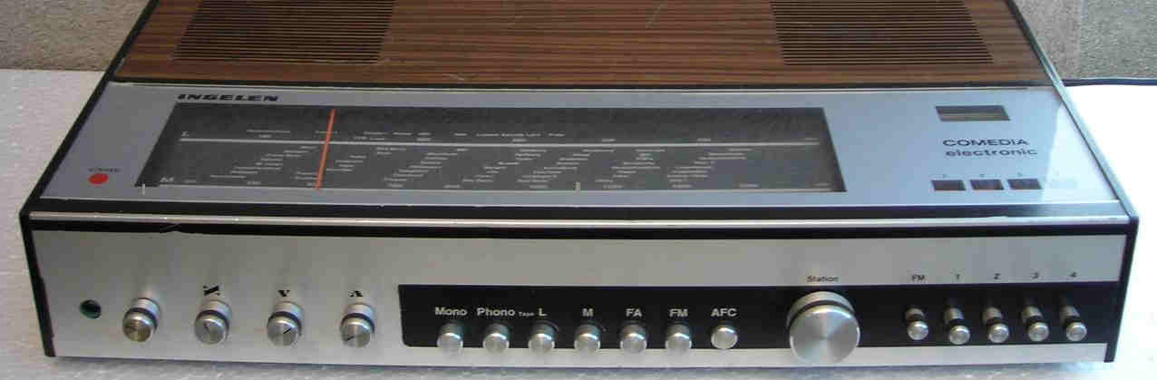 Ingelen Comedia Electronic Radio/Receiver, front side view